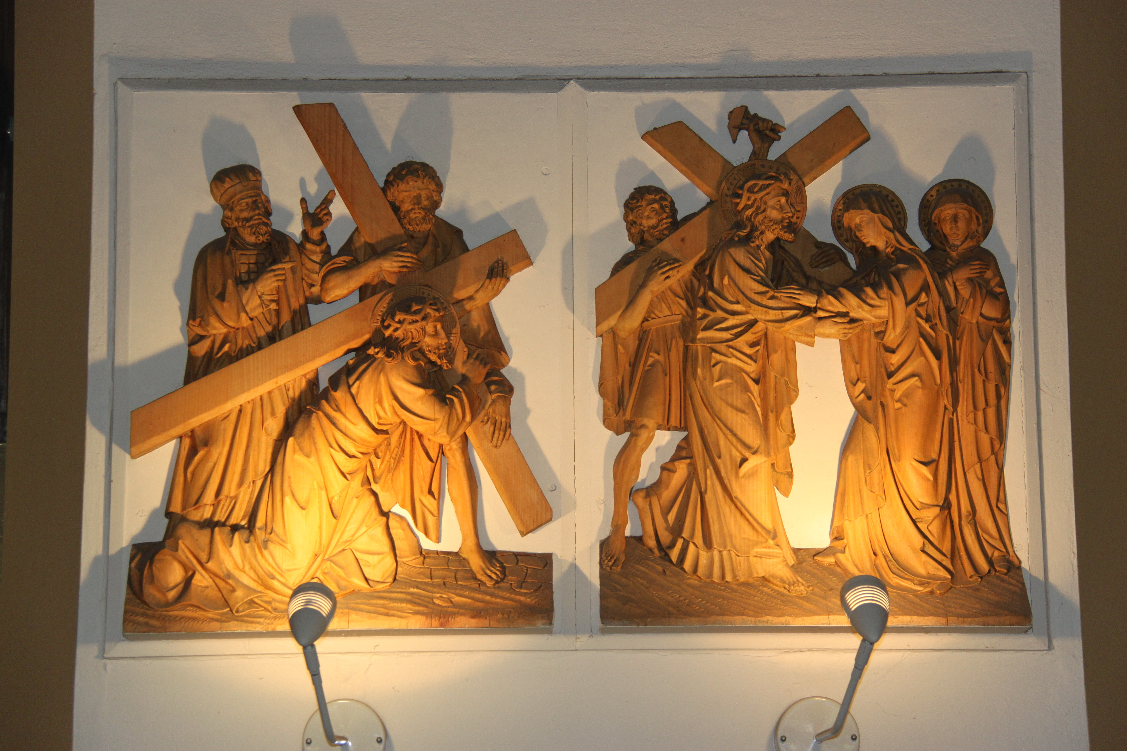 St Francis Xavier Church, 20 Mackenzie Street, Lavender Bay NSW 2060, Australia. Stations of the cross.